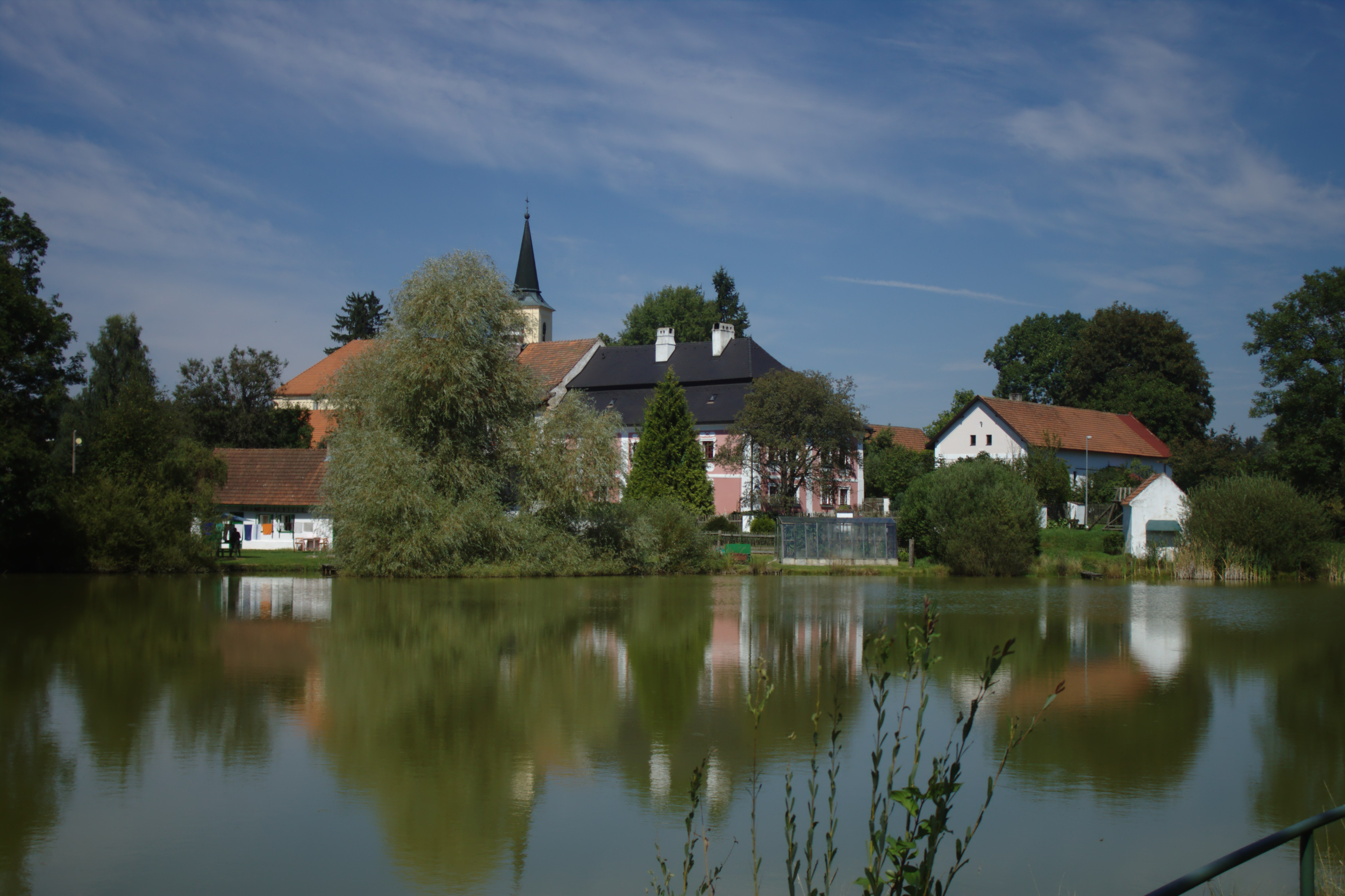 Central part of the village of Hartvíkov with a pond